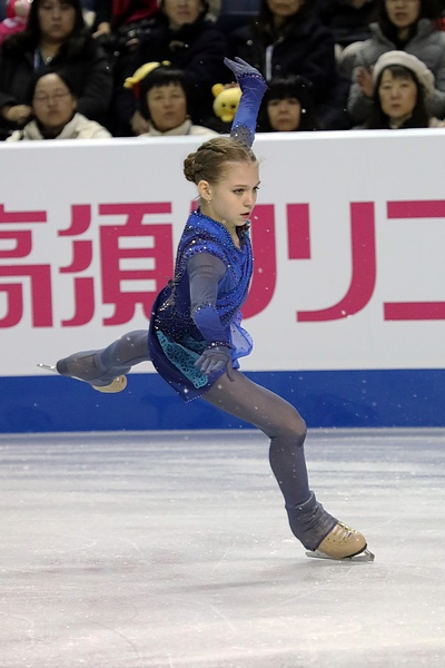 Alexandra Trusova at the Canada Grand Prix 2019